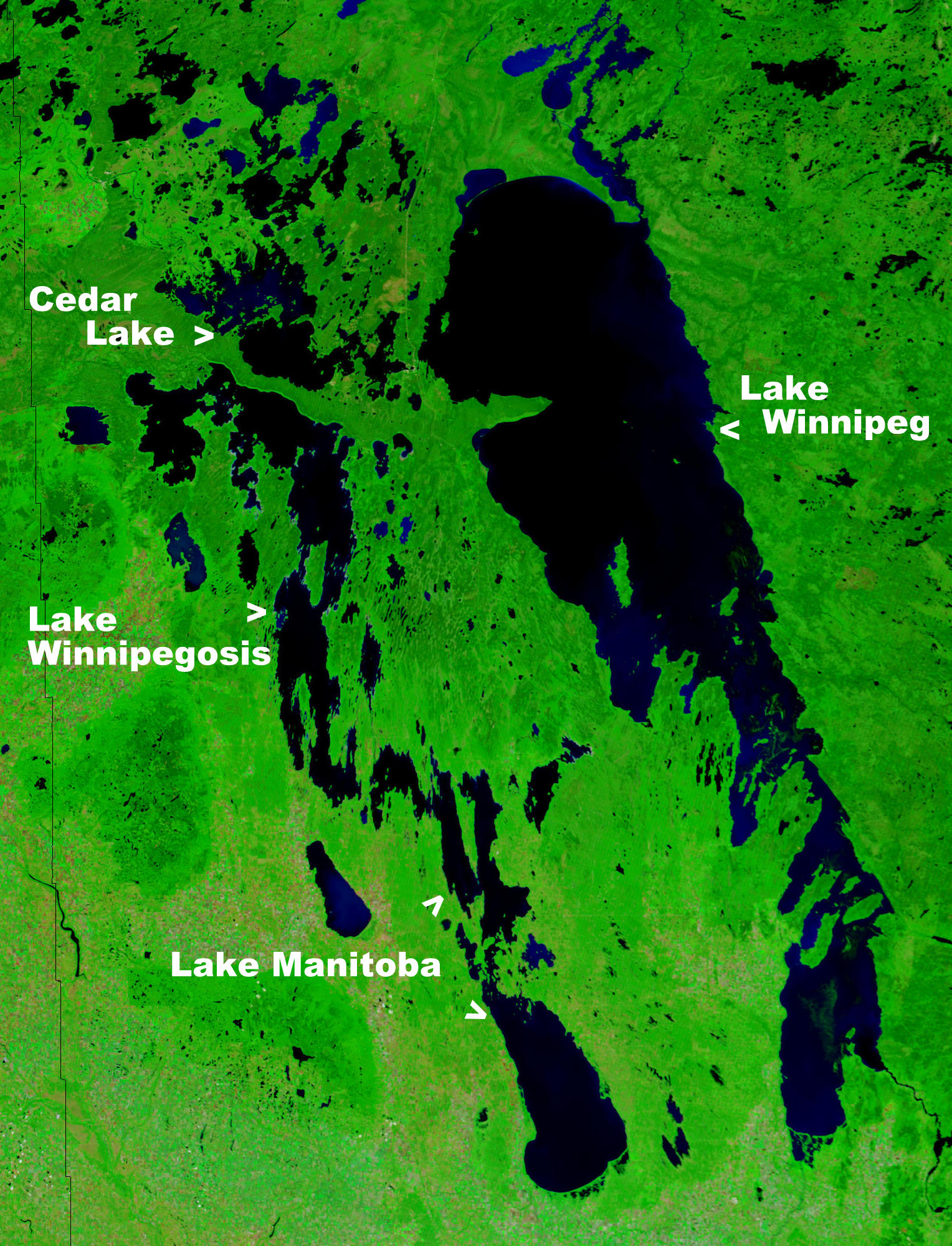 Portion of NASA map showing the major lakes of Manitoba (Captions have been added by Kayoty)